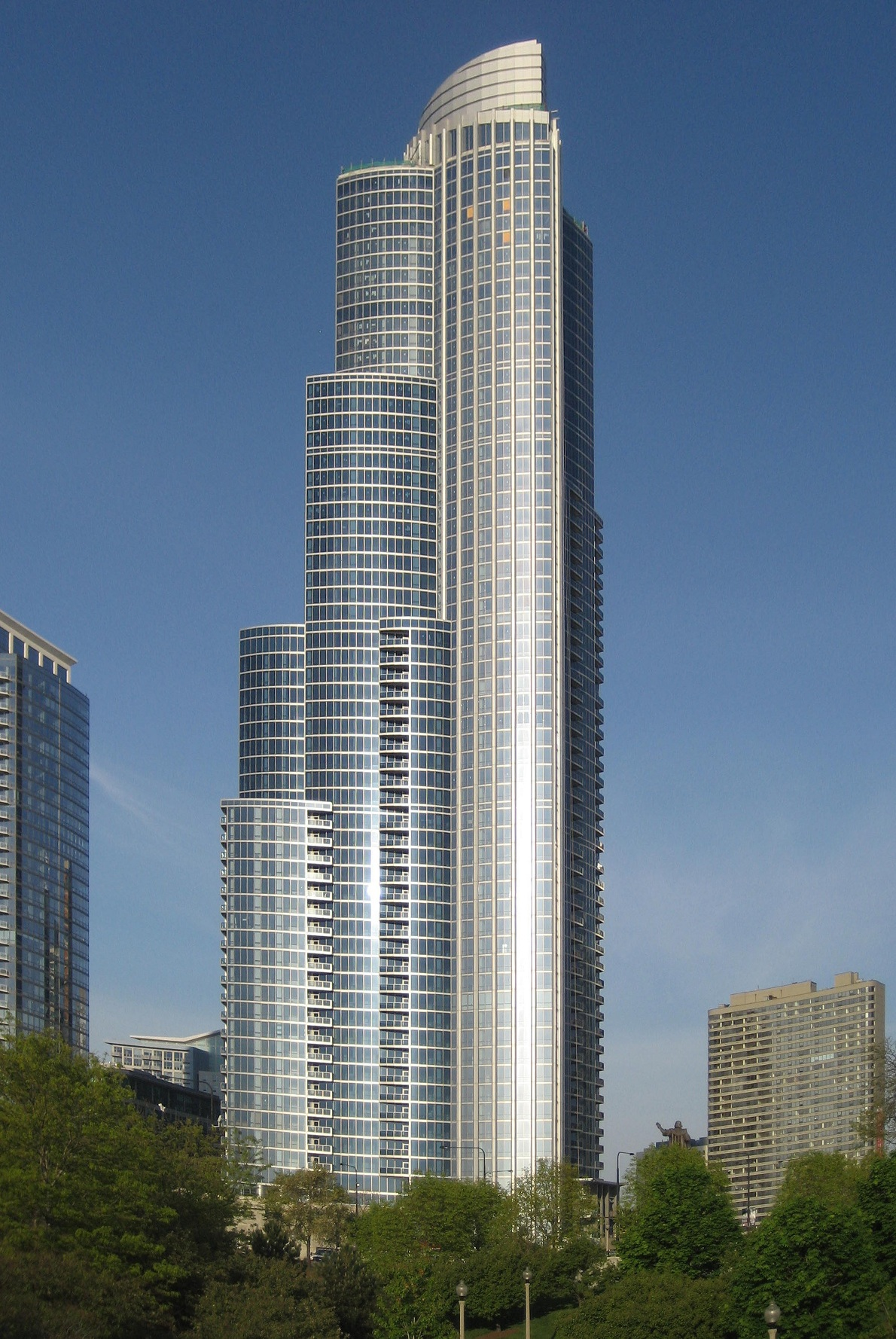 Construction photo of One Museum Park in Chicago